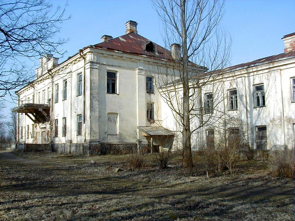 Riebiņi manor (Latvia)